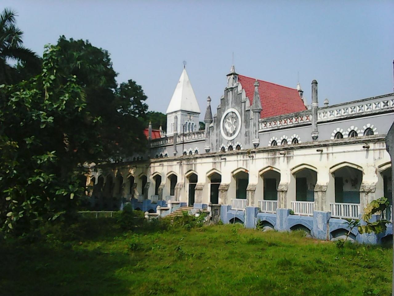 This is the photo of Krishnath College